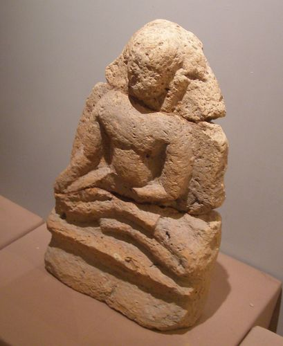 Statue of the Buddha — from Kedah. The site of the ancient kingdom and sultanate, and present day province in northwestern Malaysia. LangkasukaBuddha001.jpg